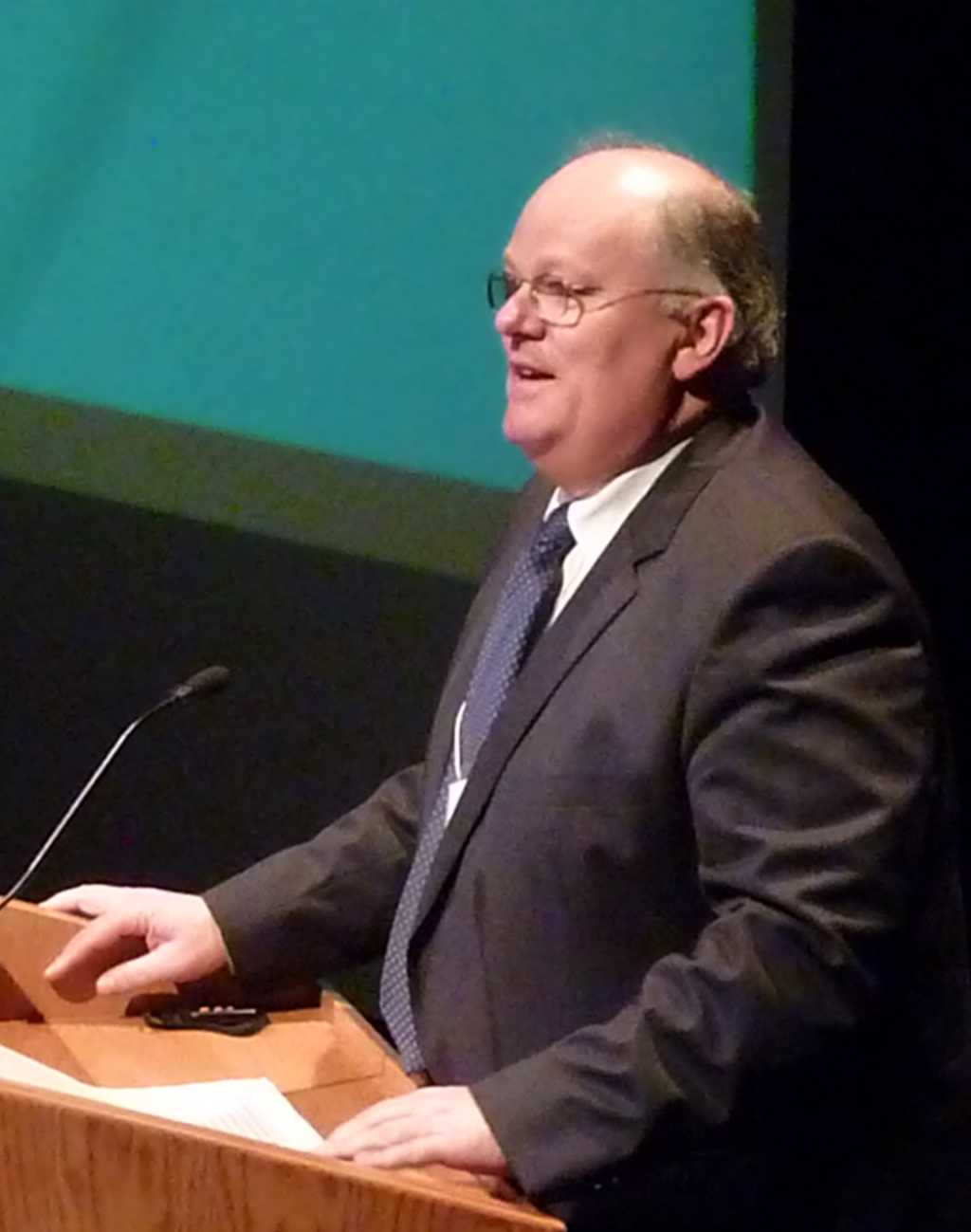 Dr. Peter Wyse Jackson opening the 58th Annual Systematics Symposium, on the topic "Trees", at the Missouri Botanical Garden, on October 8, 2011.